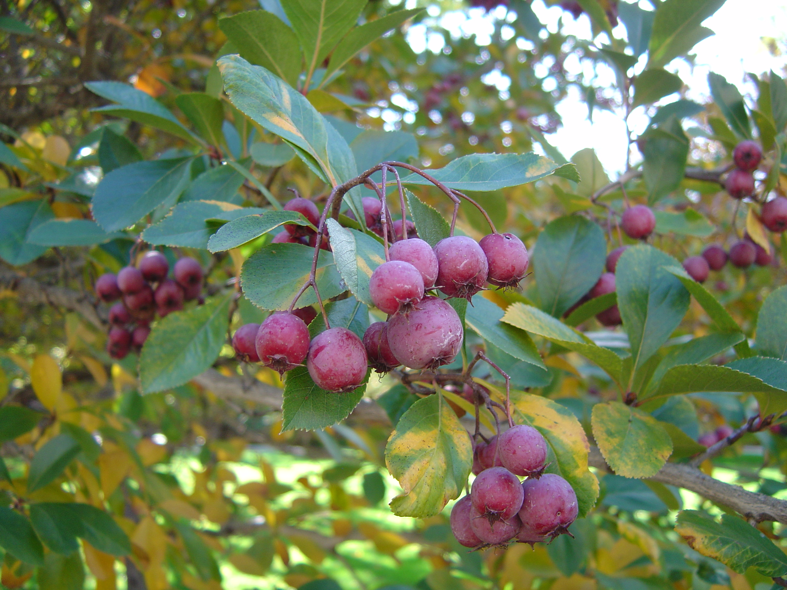 Crataegus crus-galli, a thornless, seedless cultivar